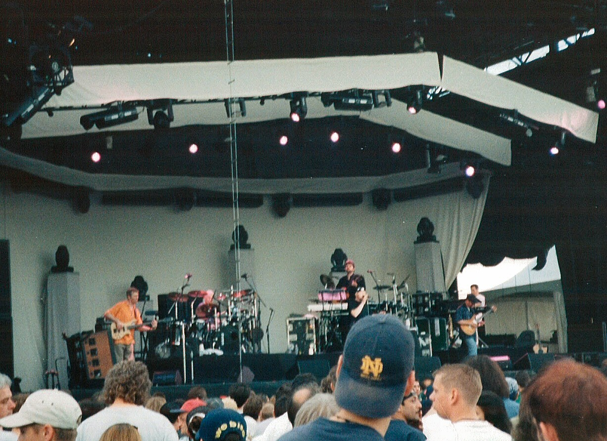 Alan Parsons Project, live performance in Montreal, Canada, June 19, 1998